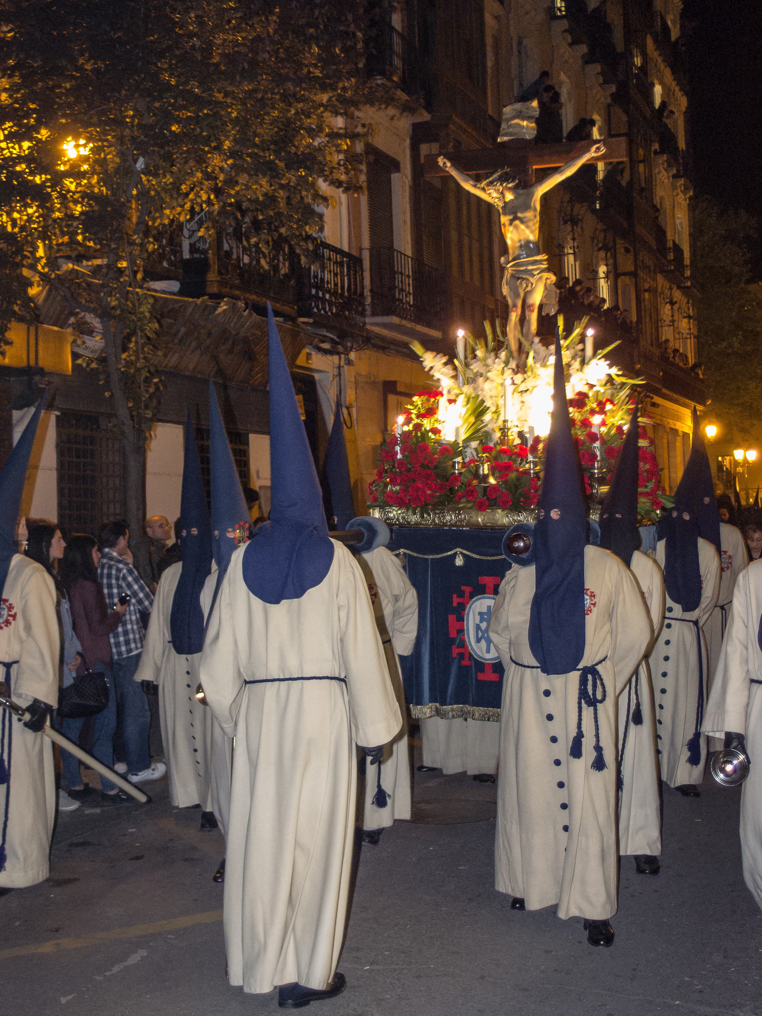 OLYMPUS DIGITAL CAMERA This is a photography of a Folklore festival in Spain (Wikidata id Q9075892).